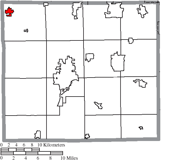 Map of the municipal and township boundaries of Wayne County, Ohio, United States, as of the 2000 census, with the location of the village of West Salem highlighted. Township borders are shown only in unincorporated areas in order to differentiate incorporated and unincorporated areas more clearly.